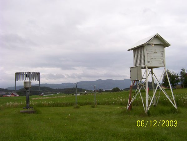 Met.no's classic MI-46 thermometer screen at Kvithamar, Nord-Trøndelag.